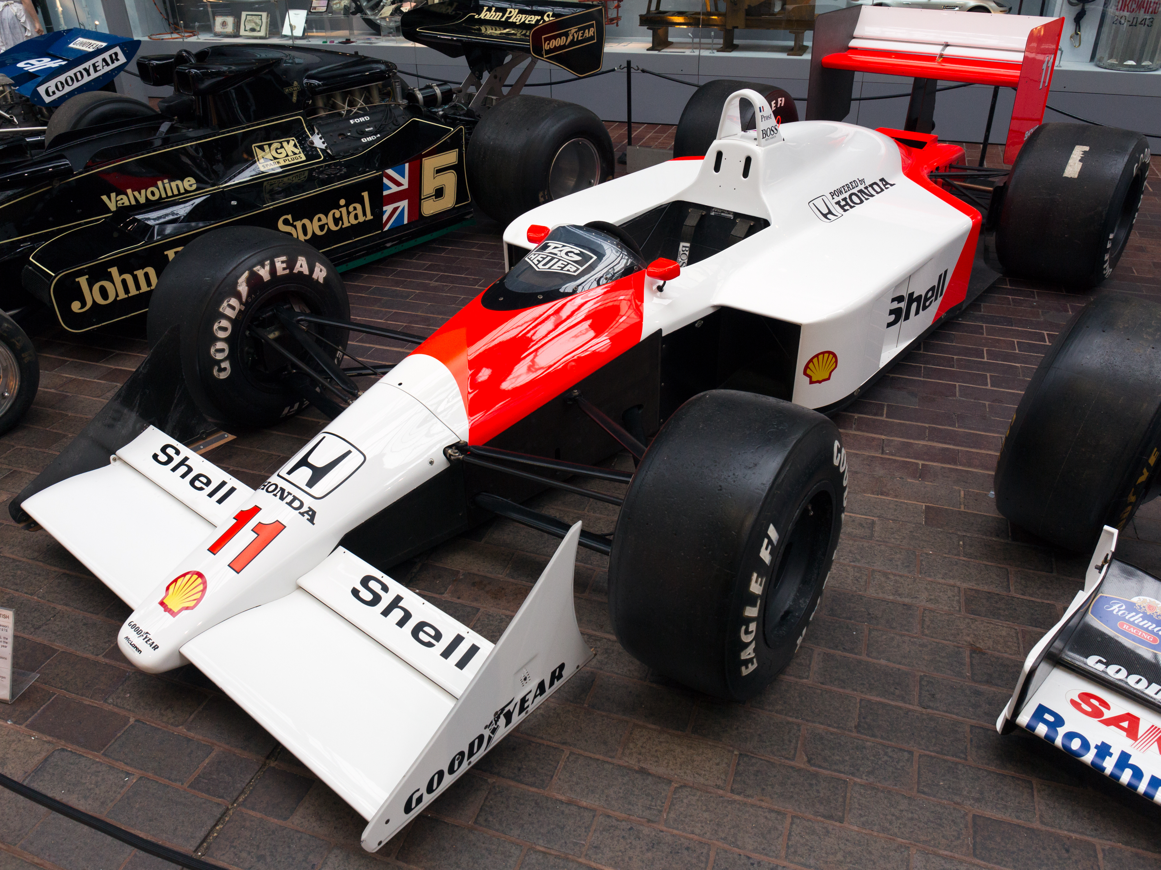 1988 McLaren MP4/4 (Alain Prost)